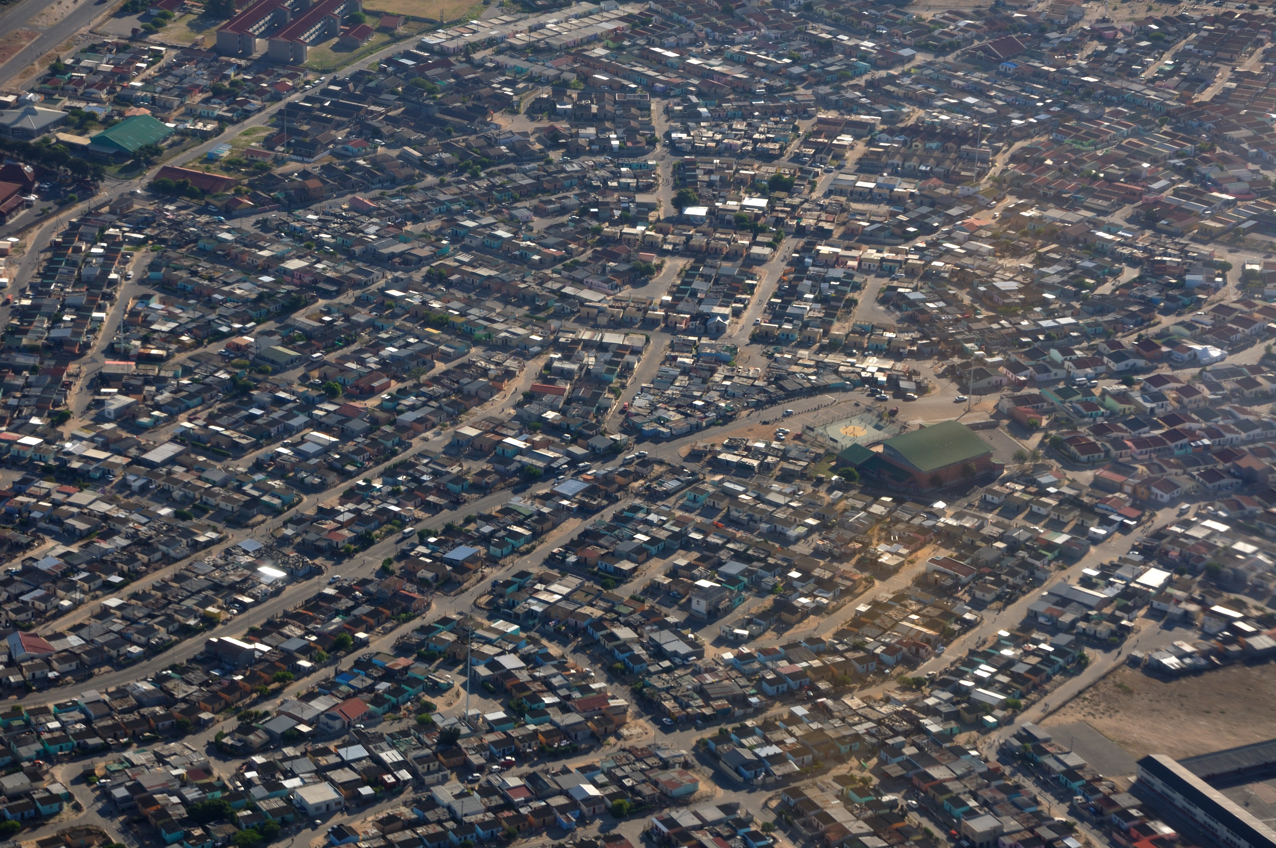 South Africa, some pictures while climbing out of Cape Town